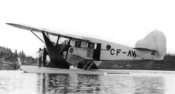 The Eldorado Radium Silver Express aircraft — a Bellanca Aircruiser that served from 1935 to 1947, in the Northwest Territories and Ontario, Canada. Flew 4,000 miles, carrying a 4,000 lb. payload of uranium oxide concentrates from the Port Radium uranium oxide mine (NWT) to a radium refinery in Port Hope (Ontario). It was owned by Eldorado Gold Mines Limited. It crashed in northern Ontario after running out of fuel in 1947. Link: Western Canada Aviation Museum: Eldorado Radium Silver Express.